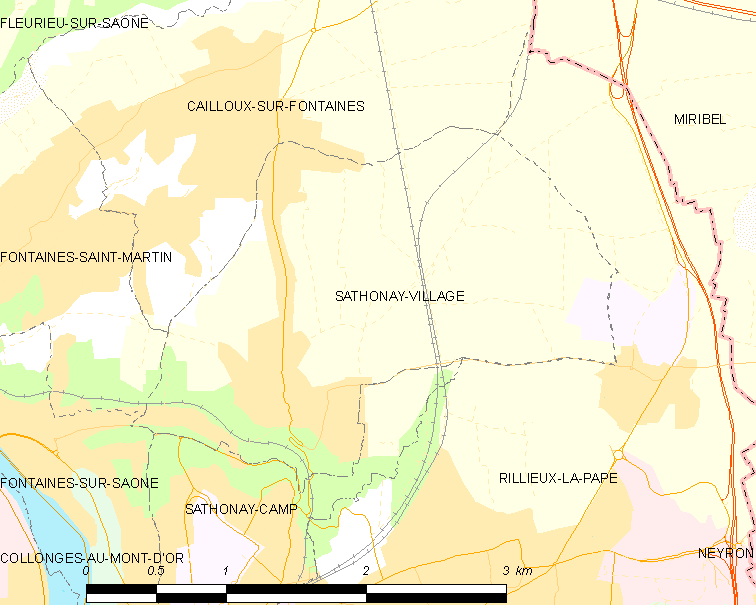 Map of French municipality